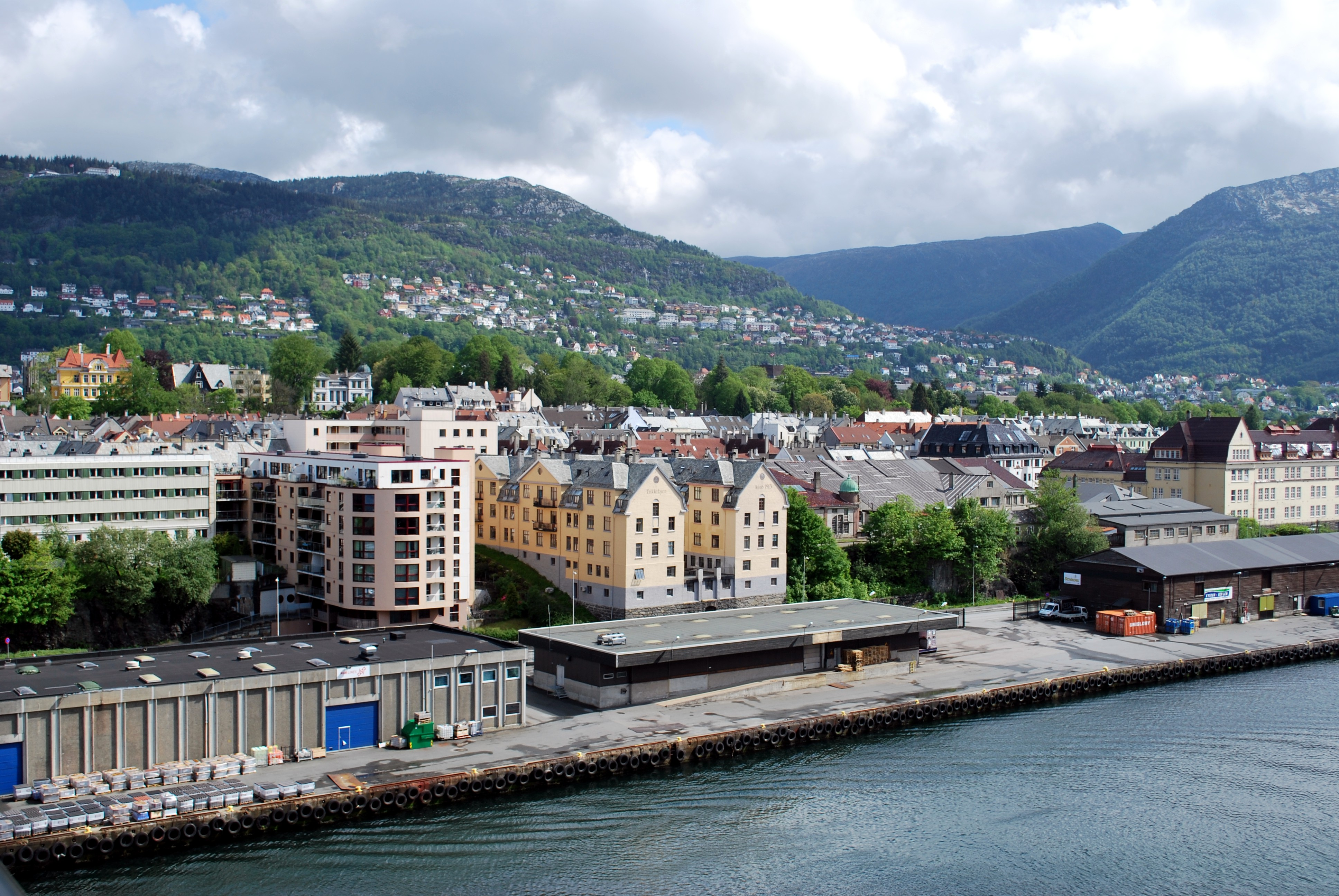 View over Møhlenpris, Bergen, Norway. Photo taken from Puddefjordsbroen.